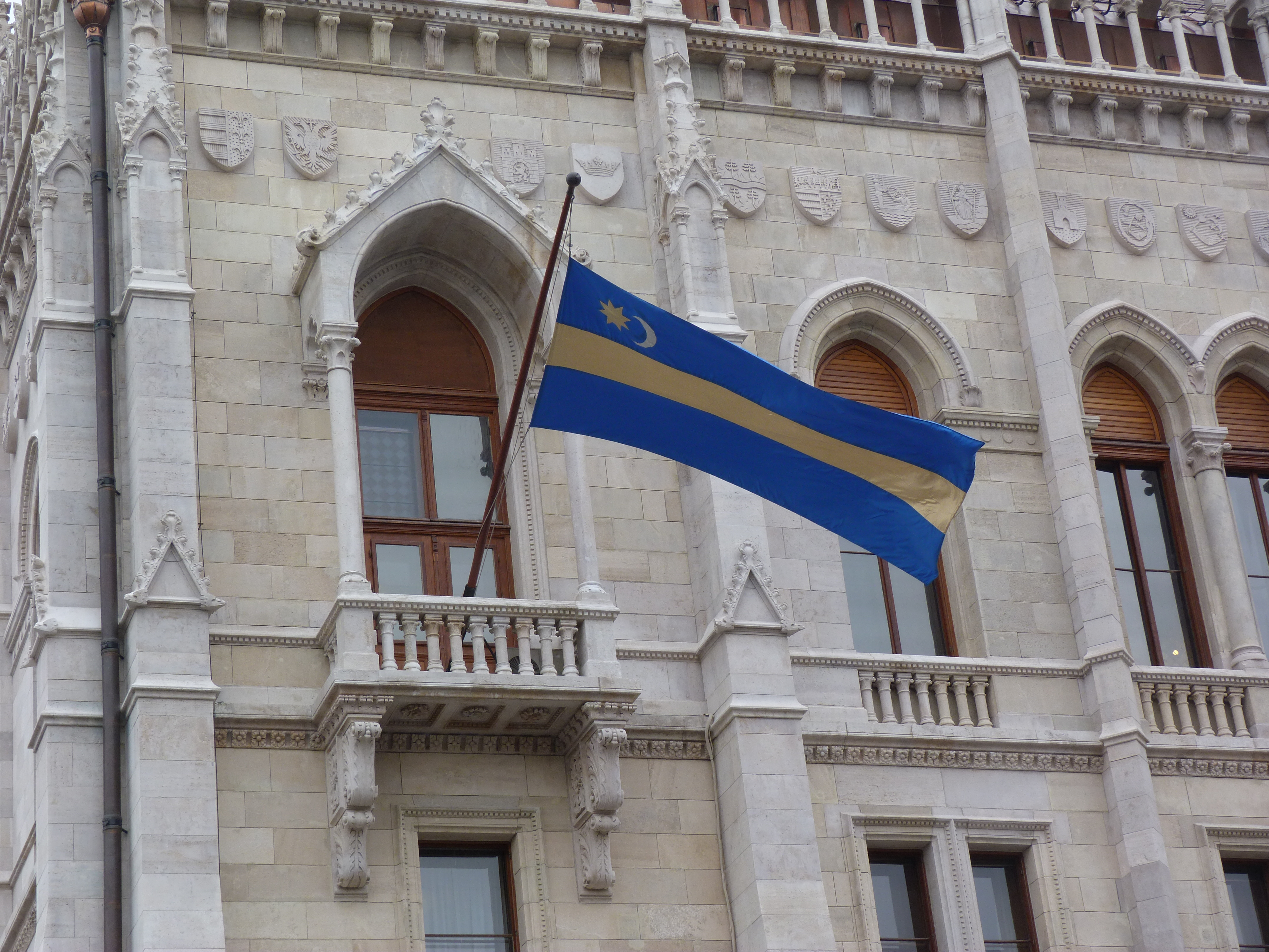 Live on Monday, the 18th of February, 2013. Székely flag flying on the Houses of Parliament, Downtown Budapest, Magyarország. The Sun, the Moon and the Stars were the symbols of the peoples of the Puszta Belt, stretching from the North of China to the western end of the Carpathian Basin. These nations held, that they had originated from Nimrod, who was symbolised by the Nimrod constellation (Orion at the Greeks). The Carpathian Basin - as the western end of the Puszta Belt - was the melting pot of Scytian, Hun, Avar and Hungarian peoples, among others the Hungarian speaking Székelys. The Székelys are Hungarians, who were part of Hun army, defeating the Roman Empire at Catalaenum, Gallia (Now France). At that time, the capital of the Hun Empire was in the Carpathian Basin, at the river Tisza. After the battle, a part of the the huns, fighting at Catalaunum settled near the territory, now known as the Székely Land. At the eastern frontierland of the Kingdom of Hungary, They were defending the eastern frontiers of the Hungarian Kingdom – and western christiandom in Europe - as freemen. Székelys have succeeded in preserving their traditions to an extent unusual even in Central and Eastern Europe. The most comprehensive description of the Székely Land and its traditions was written between 1859-1868 by Balázs Orbán in his Description of the Székely Land. The Székely flag is the flag of the Székelys. Sourches: Tarih-I Üngürüsz ©©Public domain, Derzsi Elekes Andor, Budapest, 2013, You are authorised to use the photo under Creative Commons – even for commercial, for profit - purposes. The photo must be attributed to Derzsi Elekes Andor. All of the photos and vids in the Metapolisz DVD line are under Creative Commons and can be used even for commercial – for profit – purposes. Recommended Citation Derzsi Elekes Andor: Metapolisz DVD line